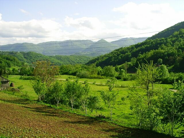 Deep forests near the village of Šekovići, Bosnia and Herzegovina